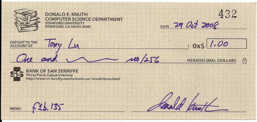 Donald Knuth reward check under the Bank of San Serriffe.